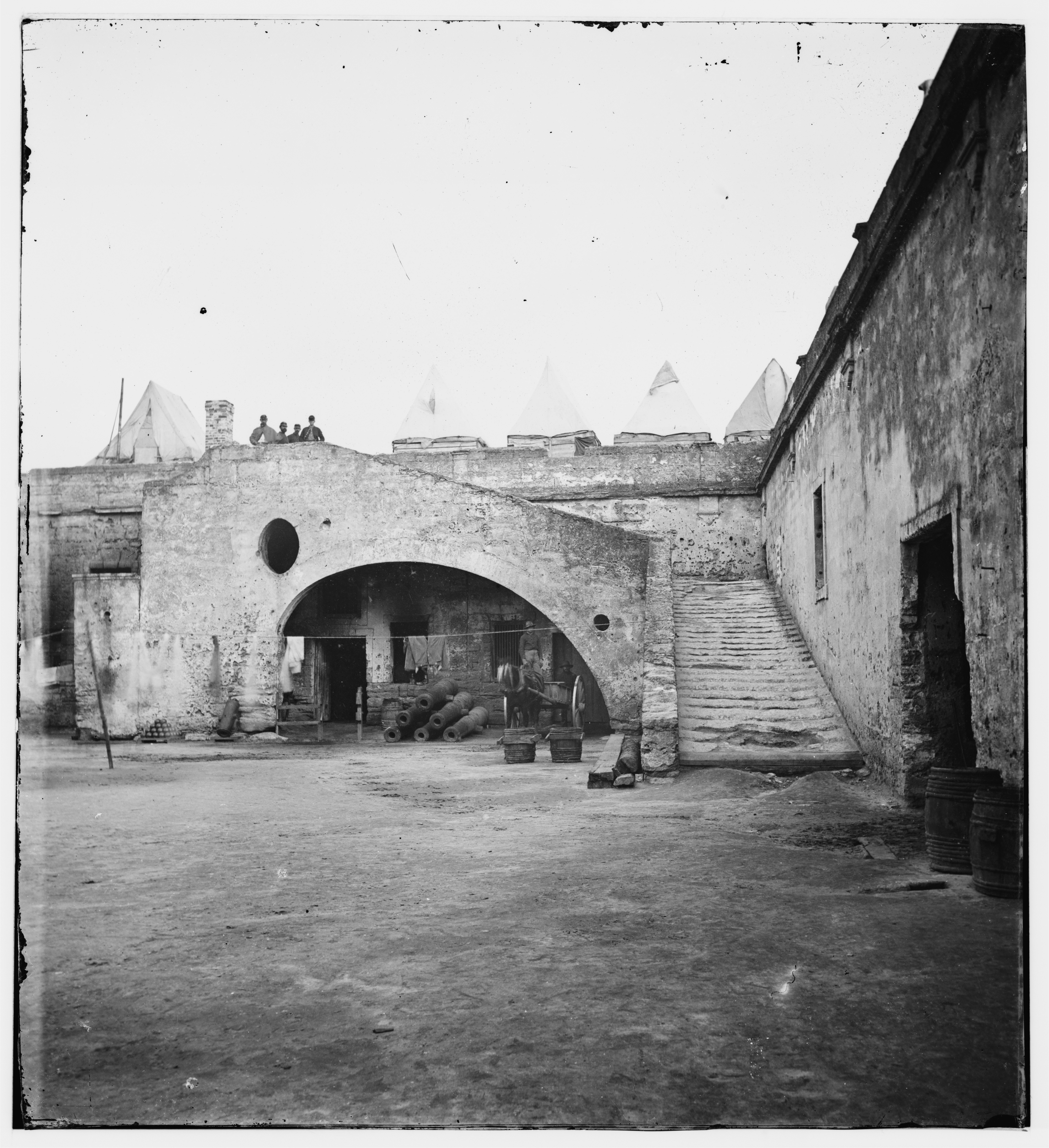 Title: St. Augustine, Florida. Interior view of Fort Marion Physical description: 1 negative (2 plates)